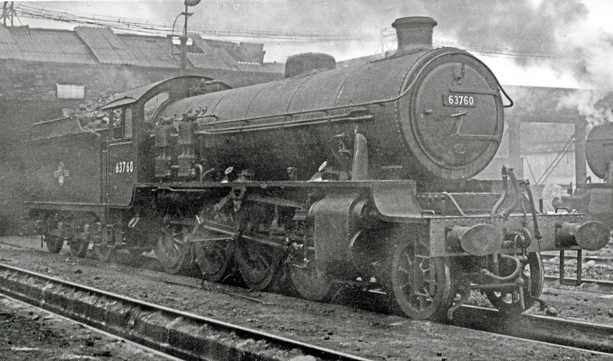 LNER Class O1 locomotive 63760 at Gorton engine shed on 8 November 1958 after overhaul at Gorton works. This loco is unusual in being equipped with air pumps for operation of heavy iron ore trains from Tyne Dock to Consett steel works.